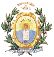 Coat of arms of the city of Santa Fe de la Vera Cruz, Argentina.